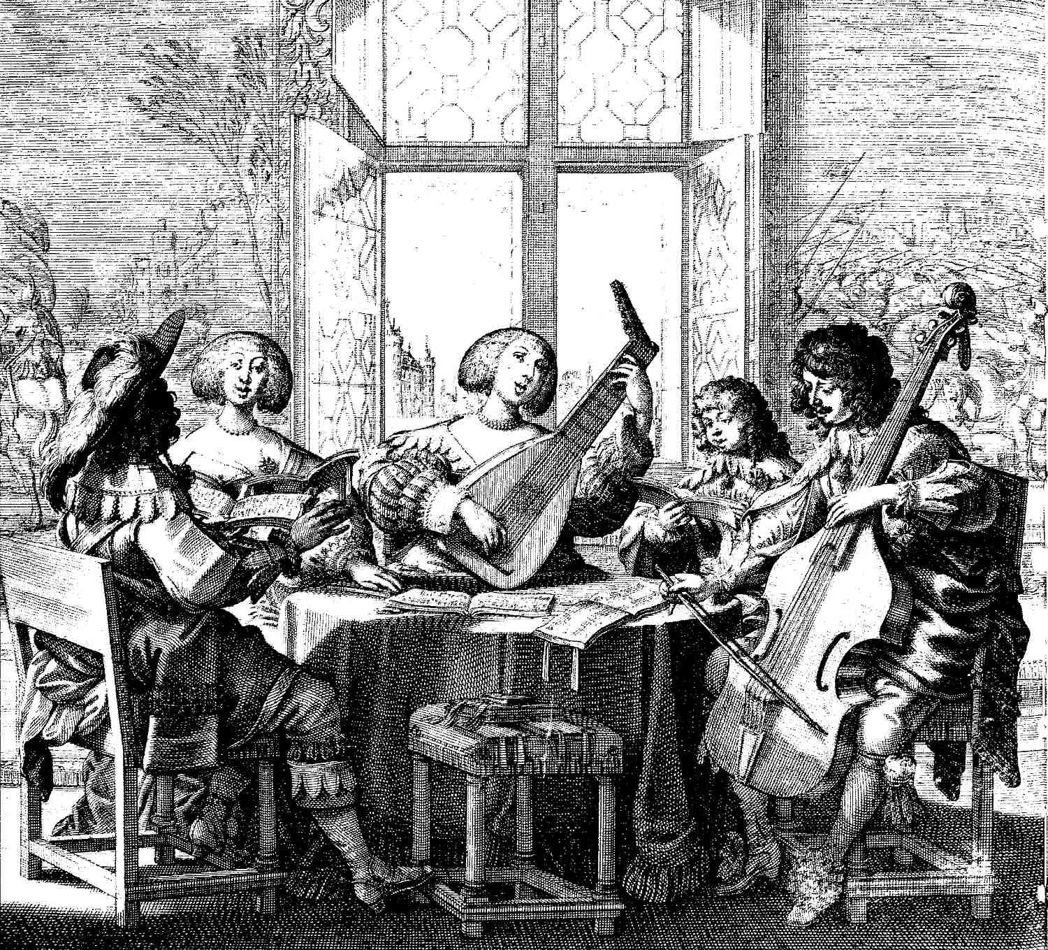 Chamber music 17th century